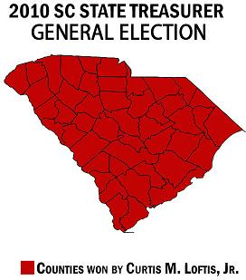 This map shows all 46 counties in red which were won by Curtis Loftis in the race for State Treasurer in the 2010 South Carolina election.